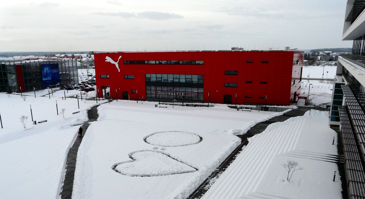 PUMAVision Headquarters in Herzogenaurach, Germany, in winter